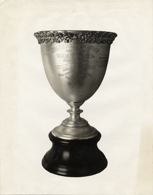 Trophy of Vanderbilt Cup photographed before the 1915 race in San Francisco.